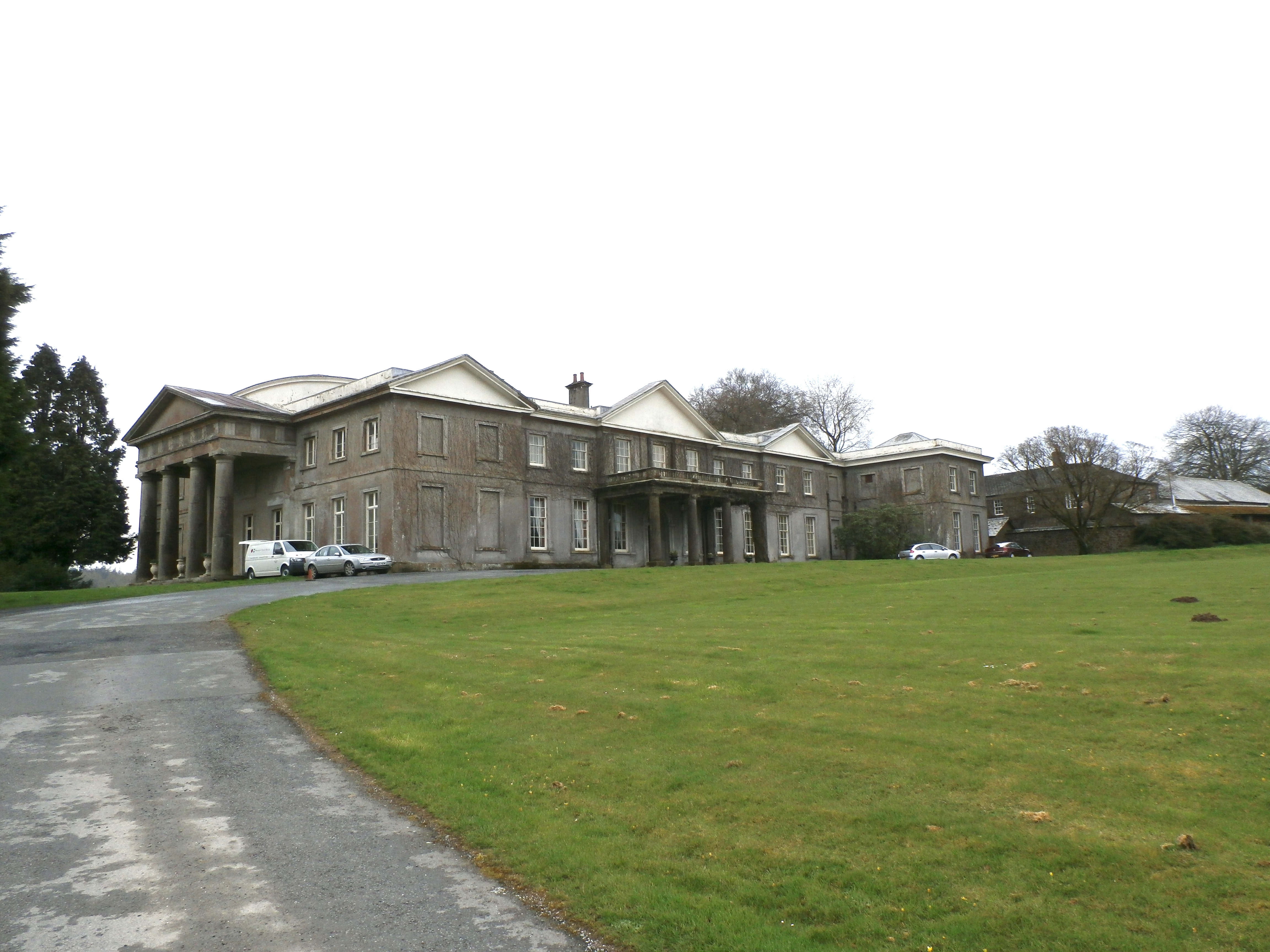 Buckland Filleigh House, Devon, view from north-east